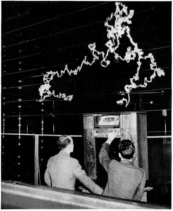 A dramatic public relations demonstration in 1940 by General Electric of the resistance to static (RFI) of its new radio broadcasting technology, frequency modulation (FM). It was held in GE's high voltage lab in New York, with a lightning-like arc from a million volt three phase-transformer as a source of interference behind the radio. The prototype radio, center, had both an AM and FM receiver. The AM receiver was tuned to music from WABC, GE's New York City AM station. The FM receiver was tuned to the same program rebroadcast by Edwin Armstrong's experimental FM radio station, W2XMN, in Alpine, New Jersey. When the AM radio was turned on, only a roar of static from the spark could be heard. When the FM radio was turned on, the music program came through clearly with just a slight amount of static. It took until the 1970s for FM broadcasting to really catch on, but today virtually all serious music broadcasting has moved from AM to FM due to its superior audio quality. Alterations to image: cloned out some text graphics overlaying the image in the upper left corner.